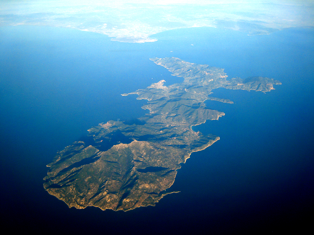 Aerial view of the island of Elba